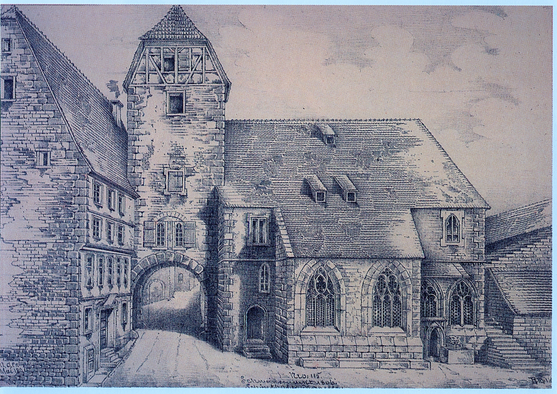 Schwäbisch Hall, Haus von der Stetten (links) Stätt-Tor (Mitte) und Marienkapelle vom Kloster Schöntal (auch Schöntaler Kapelle), Am Säumarkt 12 (heute Württembergisches Wachhaus).jpg